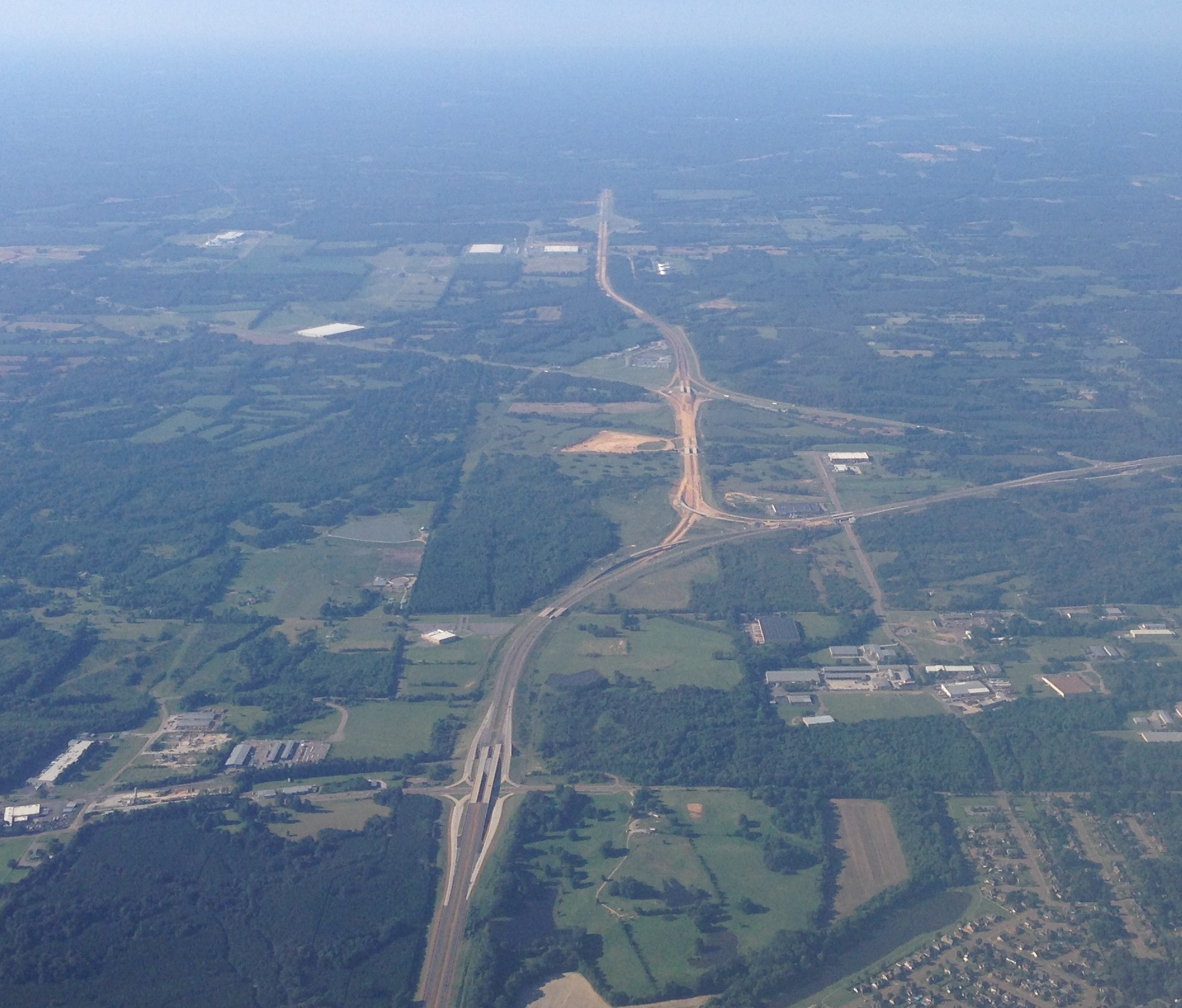 Interstate 269 in Tennessee with the southern extension to Mississippi under construction on July 29, 2014. Tennessee State Route 385 continues to the right and US 72/Tennessee 86 crosses the photo diagonally.